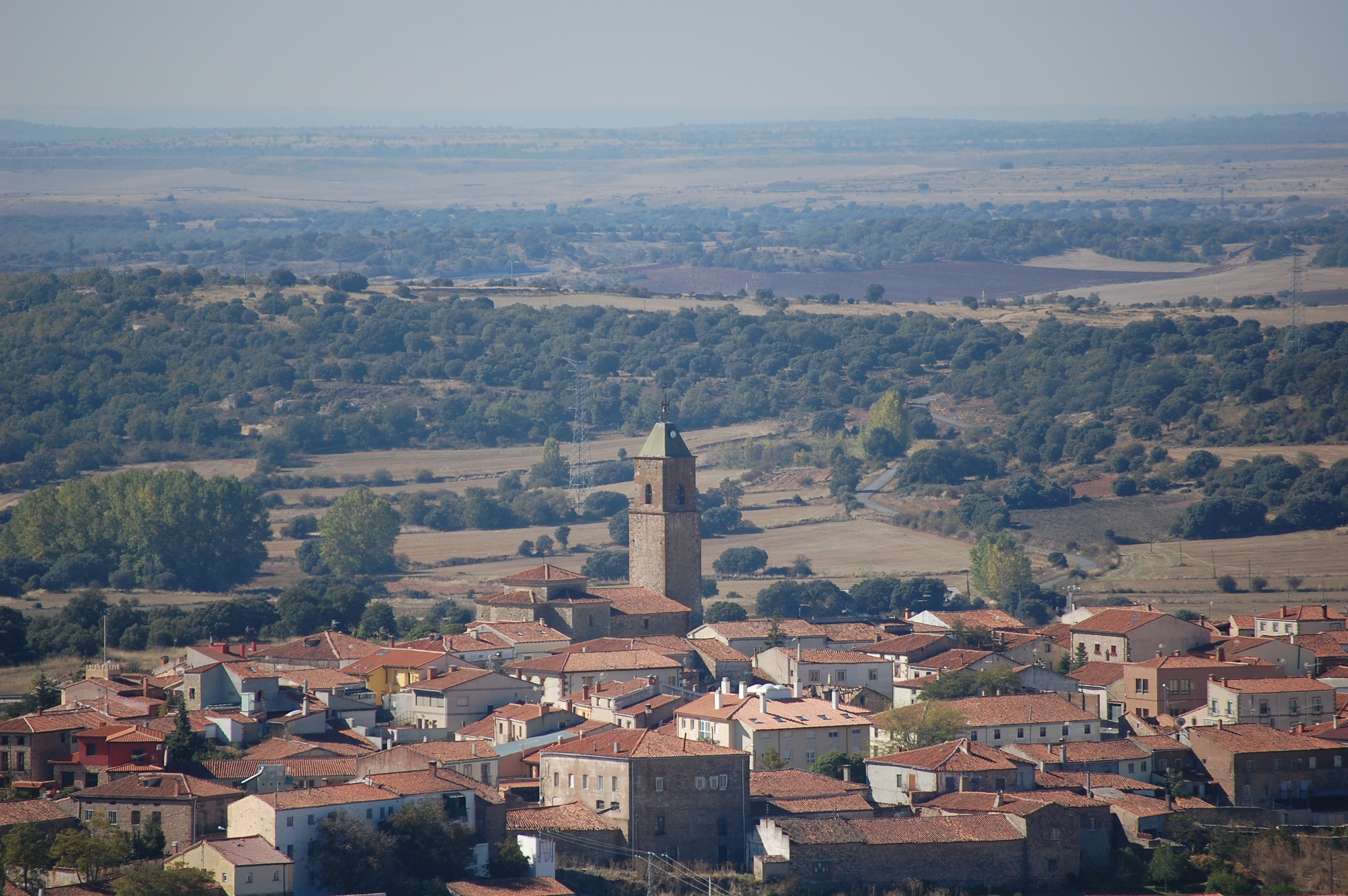 View of Alcolea del Pinar, Guadalajara, Spain.